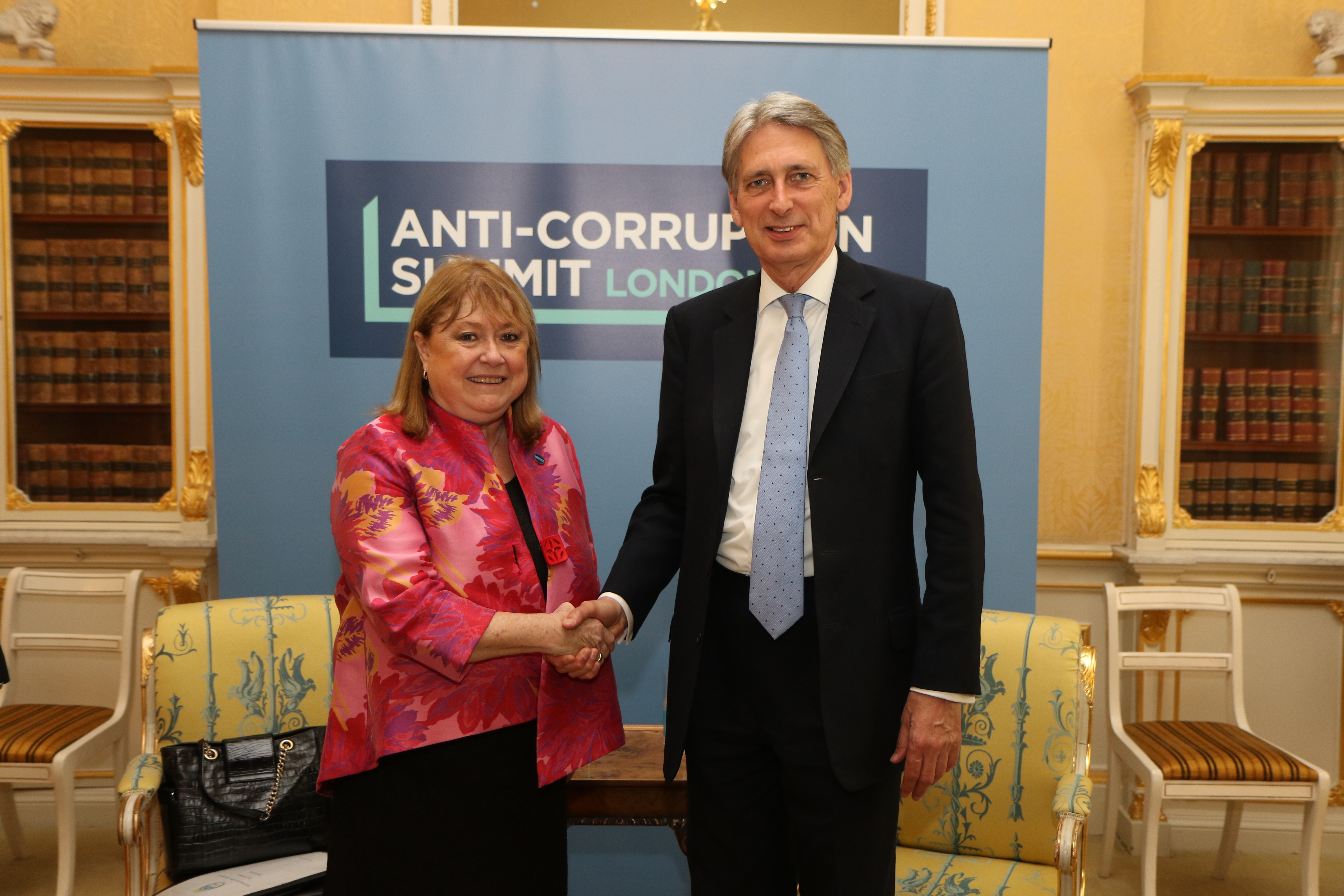 Foreign Secretary Philip Hammond met the new Argentine Minister of Foreign Affairs, Susana Malcorra, in London, 12 May 2016. Read more